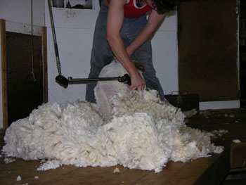 Fine Merino shearing Lismore, Victoria. Medium wool Merino being shorn. Lismore, Victoria. Shearing a Merino in Lismore, Victoria, Australia.